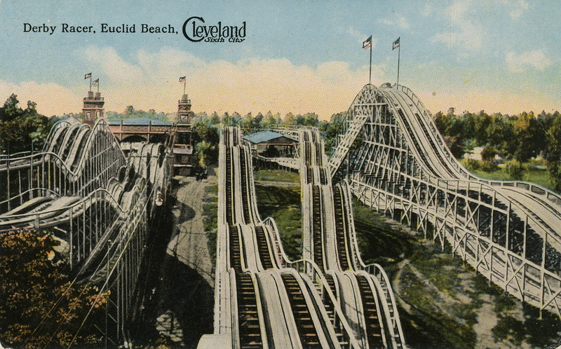 Euclid Beach Postcard